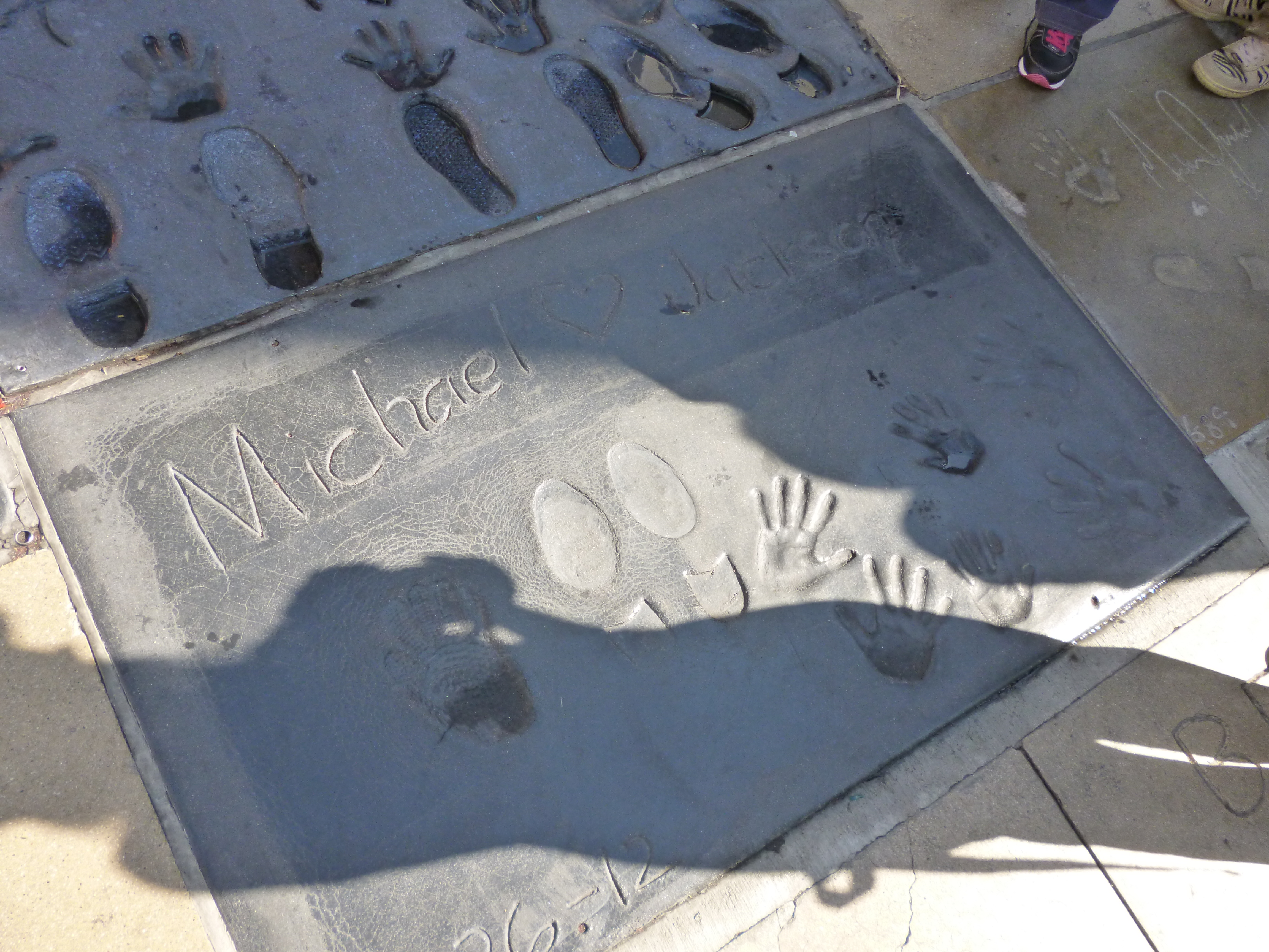 Michael Jackson's Hand and foot prints at the Grauman's Chinese Theatre